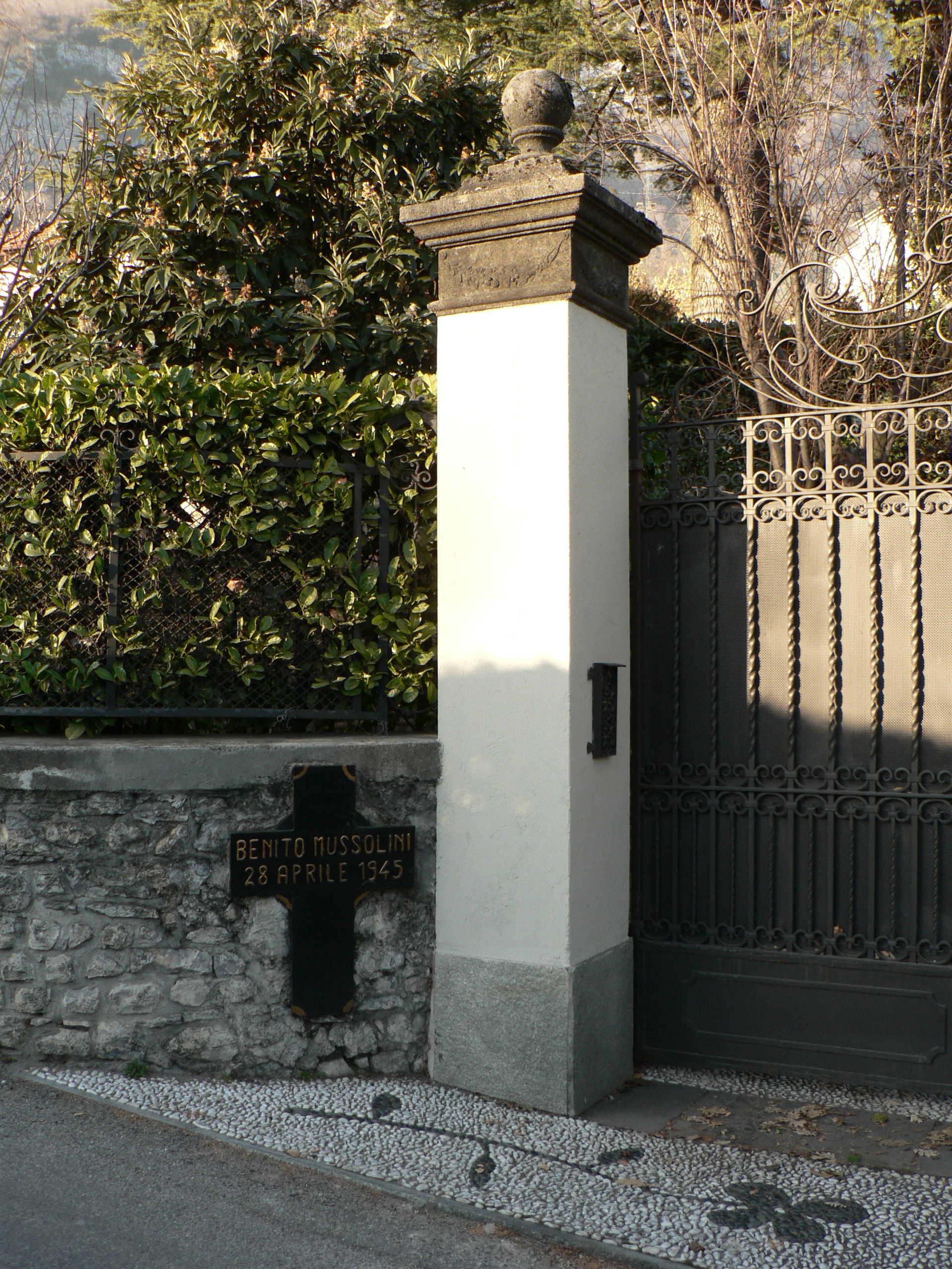 The plaque marked the alleged place of the execution of Mussolini and Claretta Petacci, April 28th 1945. At present the plaque has been removed.